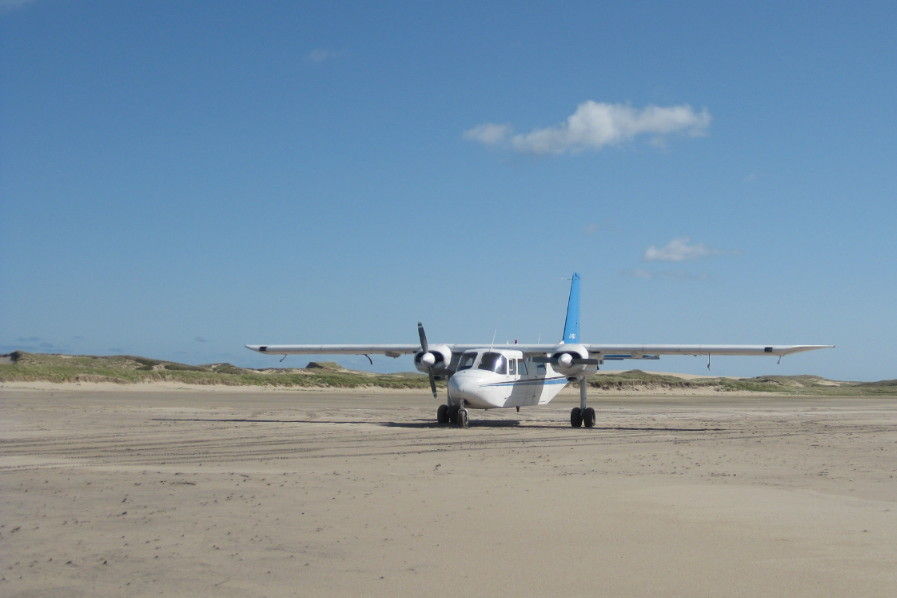 Britten-Norman Islander owned by Sable Aviation on the beach at Sable Island